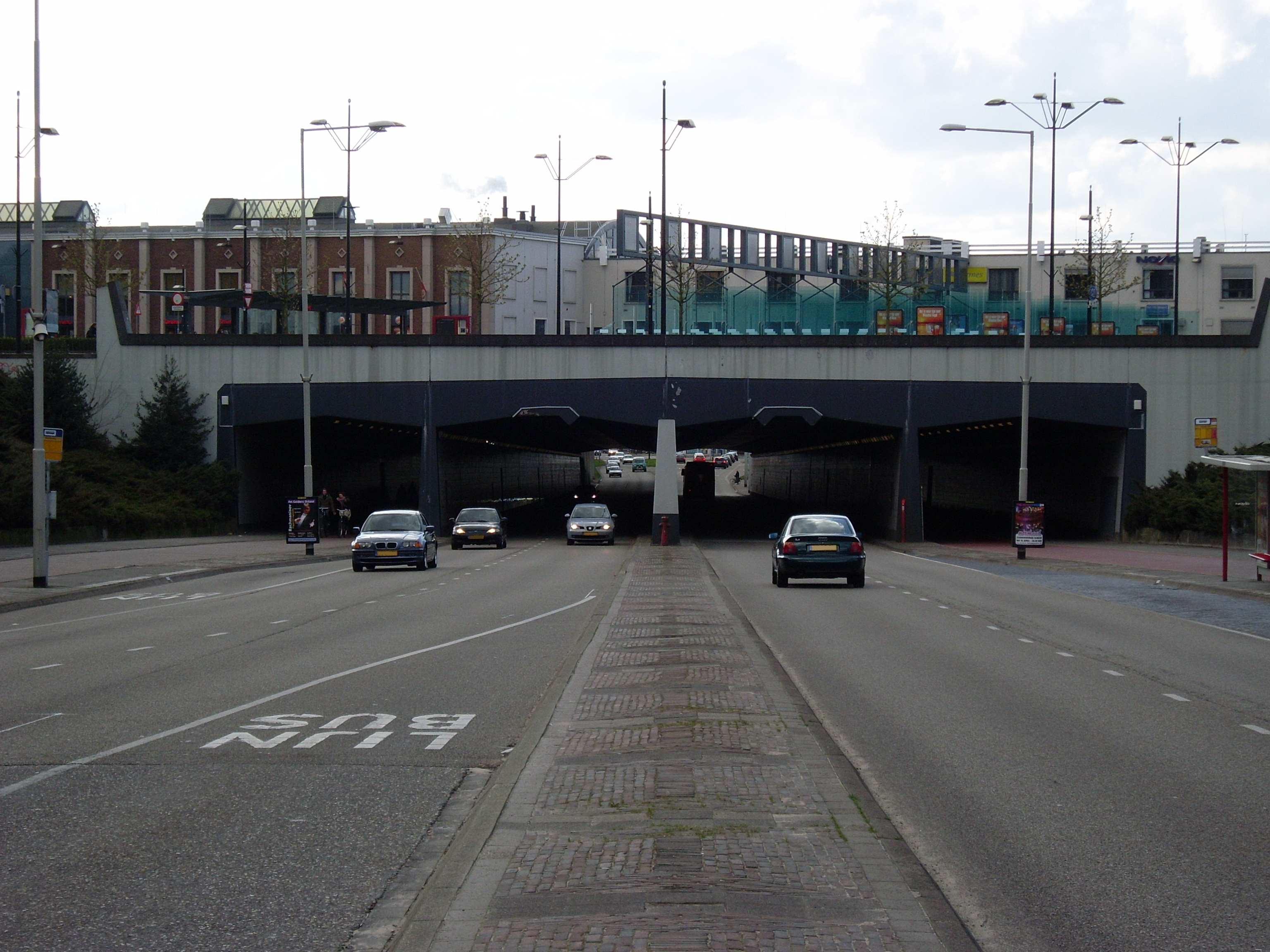 Tunnel under the railway station of Nijmegen (NL)